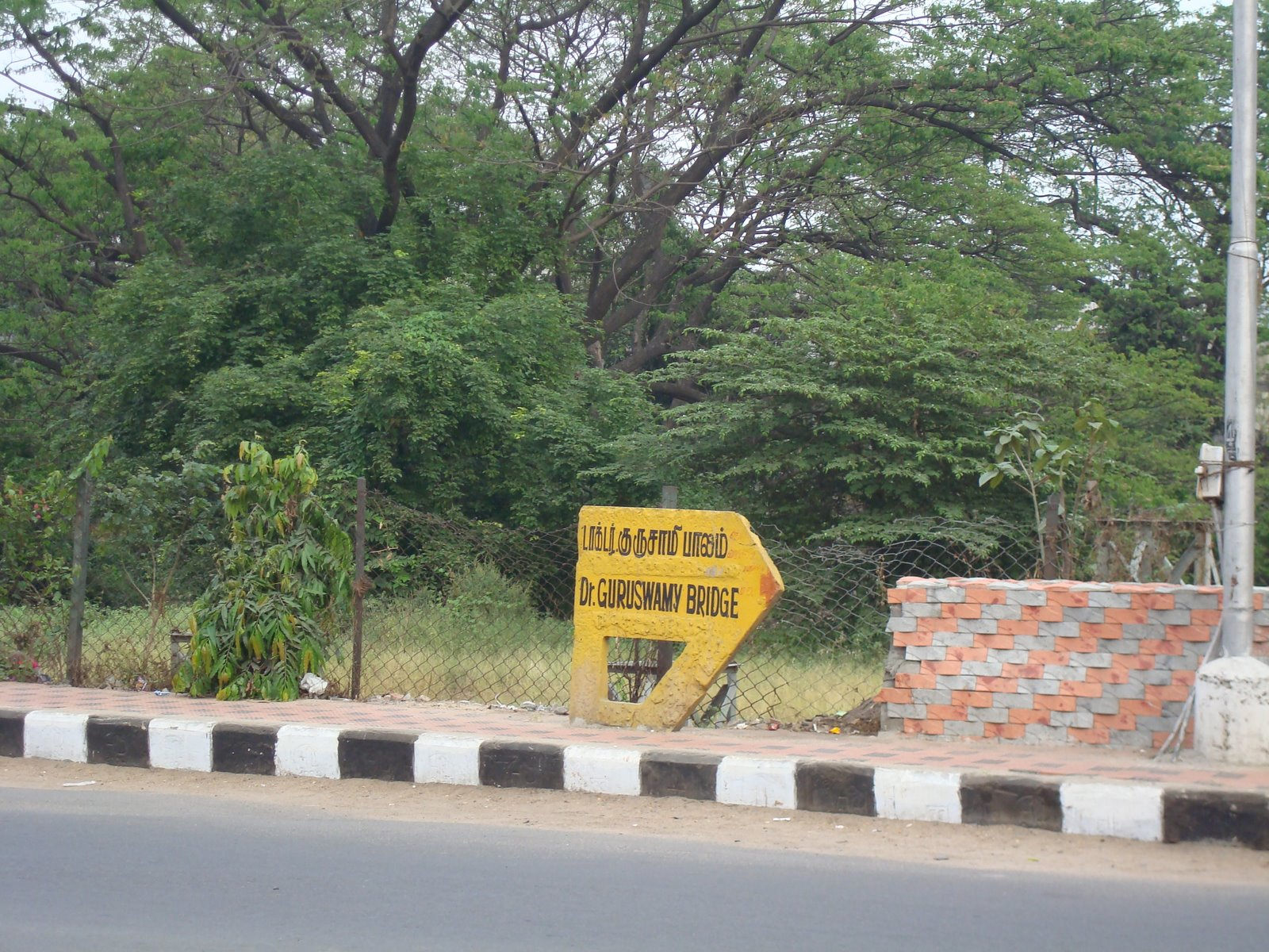 A bridge connecting Kipauk and Chepuak, Chennai, India